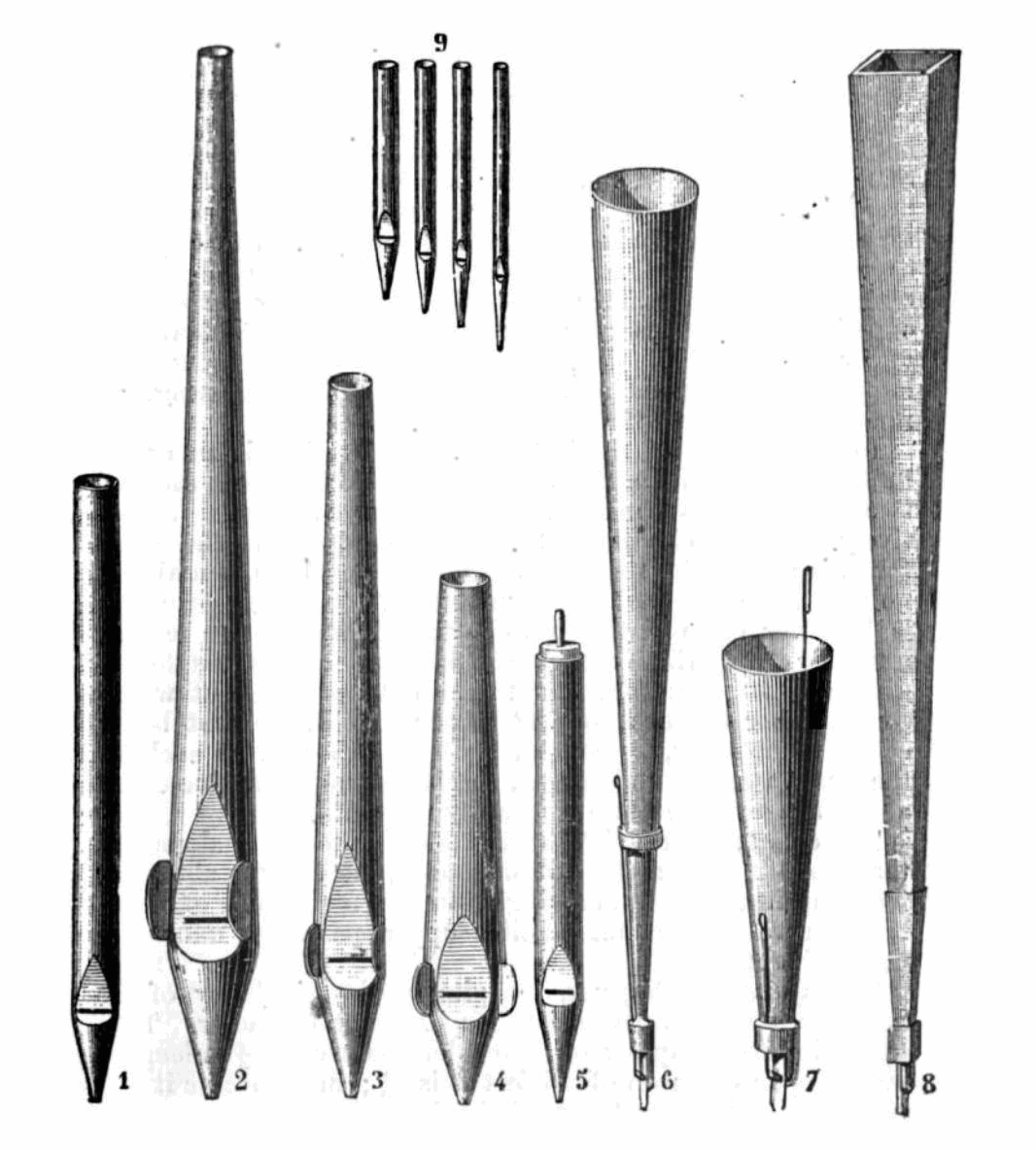 Drawing of different types of organ pipes, or stops, from the 1800s. In the caption the labels are identified as: 1.Principal (4 feet), 2.Spitz-flöte (8 and 4 feet), 3.Twelfth (3 feet), 4.Cornet, 5.Flute (8 and 4 feet), 6.Trumpet (8 and 4 feet), 7.Vox humana (8 feet), 8.Bombarde or double reed (16 and 8 feet), 9.Mixture (4 ranks). Alterations: removed caption